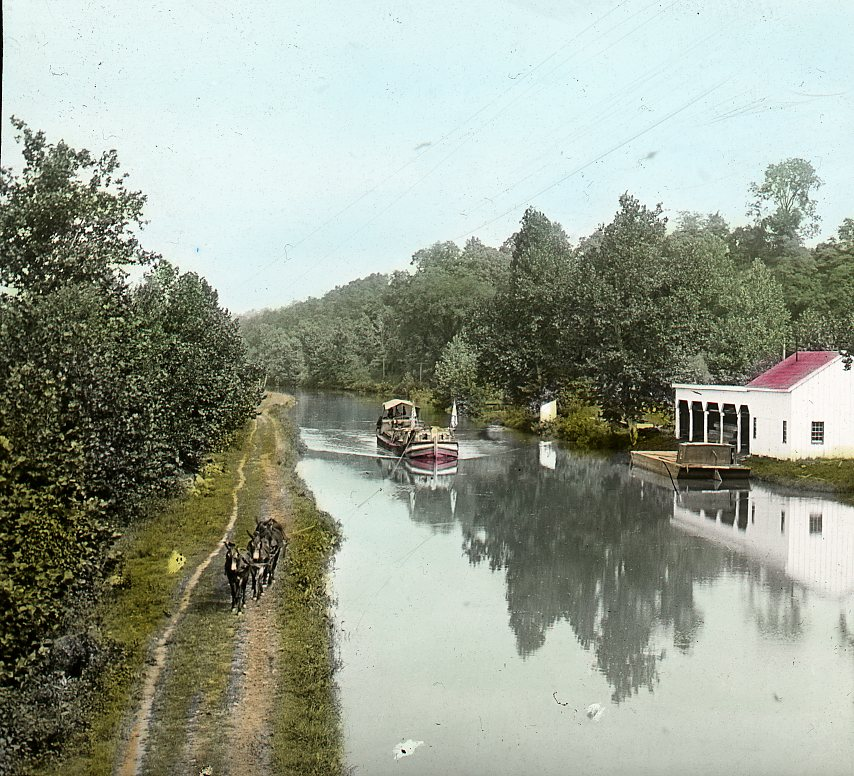 Canal boat being towed along the C&O Canal